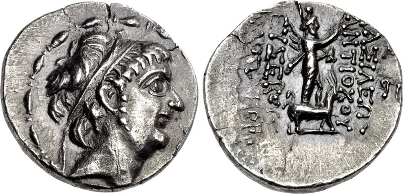 Second Recorded Coin for Antiochos X at Tarsos CNG 99, Lot: 349. Estimate $300. Sold for $1500. This amount does not include the buyer’s fee. SELEUKID KINGS of SYRIA. Antiochos X Eusebes Philopator. Circa 94-88 BC. AR Drachm (18mm, 3.87 g, 12h). Tarsos mint. Diademed head right, diadem ends falling straight behind; all within fillet border / [Β]ΑΣΙΛΕΩΣ ΑΝΤΙΟΧΟΥ on right, ΕΥΣΕΒΟΥΣ [Φ]ΙΛΟΠΑΤΟΡ[ΟΣ] on left, Sandan standing right, wearing a polos and with a bow and quiver over his shoulder, holding double-headed ax in left hand and flower in right, on the back of horned lion-griffin right; to outer right, N above ΠP monogram. SC 2426A = SCADS33 (same dies), otherwise unpublished. Good VF, toned, edge split, some roughness on obverse, area of weak strike on reverse. Extremely rare, only the second recorded example. According to the description by Oliver Hoover at which refers to the discovery coin photographed on the website: “This is the first coin known for the king at Tarsus. It is especially notable for its use of a pi-control similar to that previously employed by Antiochus IX and Seleucus VI at the city. It is overstruck on a host coin that had this same control, but apparently a different legend. It seems likely that the host is either an unrecorded variety of Antiochus IX drachm or an entirely unknown drachm of Seleucus VI.” It is also possible that the present specimen was overstruck on an earlier drachm, explaining the weak reverse strike, but there are no signs of the undertype.